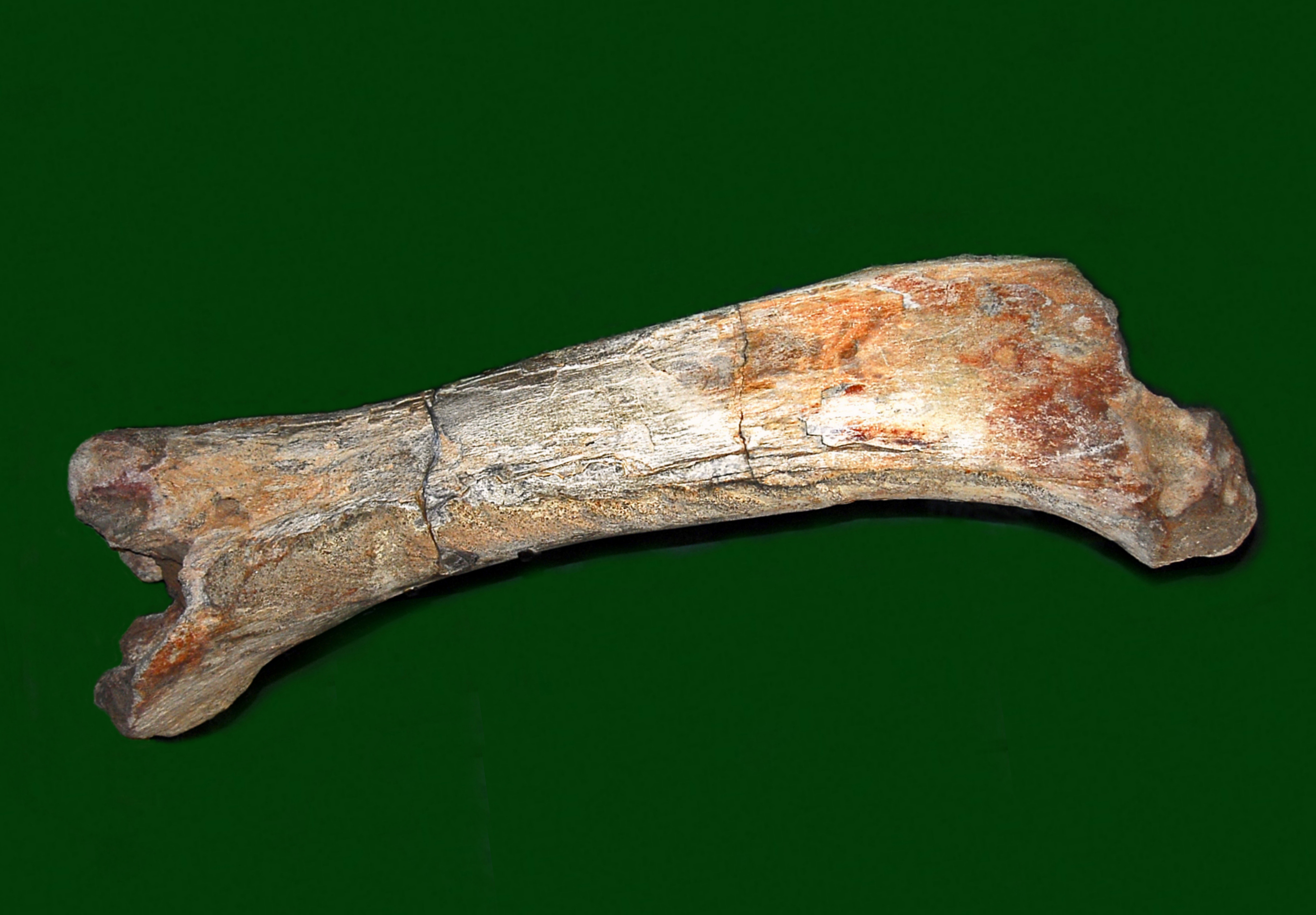 Femur of Argyrosaurus superbus.